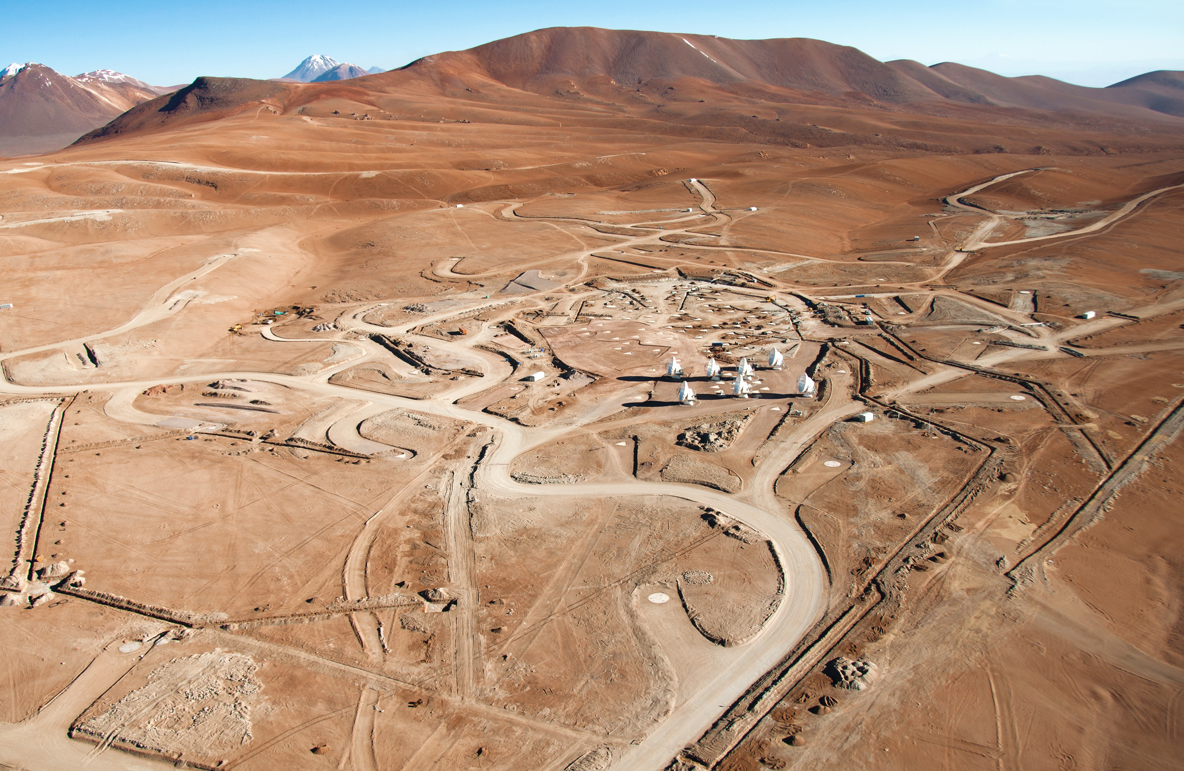 Flying south west over the 5000-metre-high Chajnantor plateau in the Chilean Andes gives an impressive view of the construction on the ALMA Array Operations Site (AOS). Besides the growing number of antennas, the roads along which the antennas themselves will be moved across the plateau are taking shape. The photograph was taken on 24 March 2011, and some of the antennas that had been installed at that time are visible at the centre of the picture. ALMA, the Atacama Large Millimeter/submillimeter Array, will be initially composed of 66 antennas, designed to observe the Universe in millimetre and submillimetre radiation. The main array will consist of fifty 12-metre antennas that can be spread over distances from 150 metres to 16 kilometres. In addition to the main array, ALMA will also have a compact array, composed of four 12-metre antennas plus twelve 7-metre antennas. By using the technique of interferometry, ALMA will work as a single giant telescope, enabling astronomers to observe the cold universe with unprecedented sensitivity and resolution. From the high altitudes of the Andes, ALMA will provide a revolutionary contribution to the search for our cosmic origins. ALMA, an international astronomy facility, is a partnership of Europe, North America and East Asia in cooperation with the Republic of Chile. ALMA construction and operations are led on behalf of Europe by ESO, on behalf of North America by the National Radio Astronomy Observatory (NRAO), and on behalf of East Asia by the National Astronomical Observatory of Japan (NAOJ). The Joint ALMA Observatory (JAO) provides the unified leadership and management of the construction, commissioning and operation of ALMA.